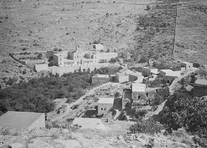 Artas, West bank, Palestine (cropped version)